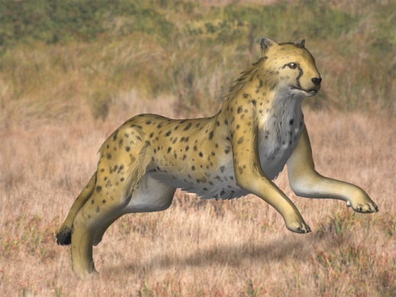 Acinonyx kurteni, a reconstruction of the discredited fossil specimen, once thought to be a an extinct cheetah from China. Digital.